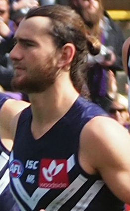 Connor Blakely playing for Fremantle Football Club at Domain Stadium, Perth. Round 23: Fremantle vs Western Bulldogs, 28 August 2016